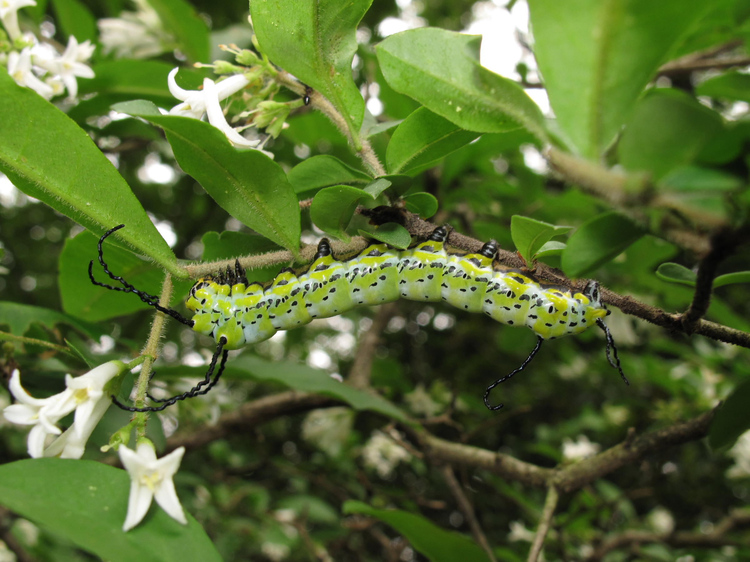 The larva of a Brahmaea japonica